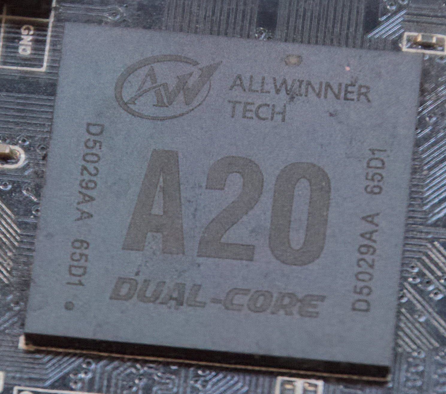 AllWinner A20 SoC in a Cubieboard2.